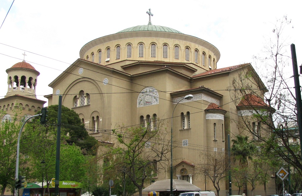 Saint Panteleimon church as seen from Acharnon avenue.